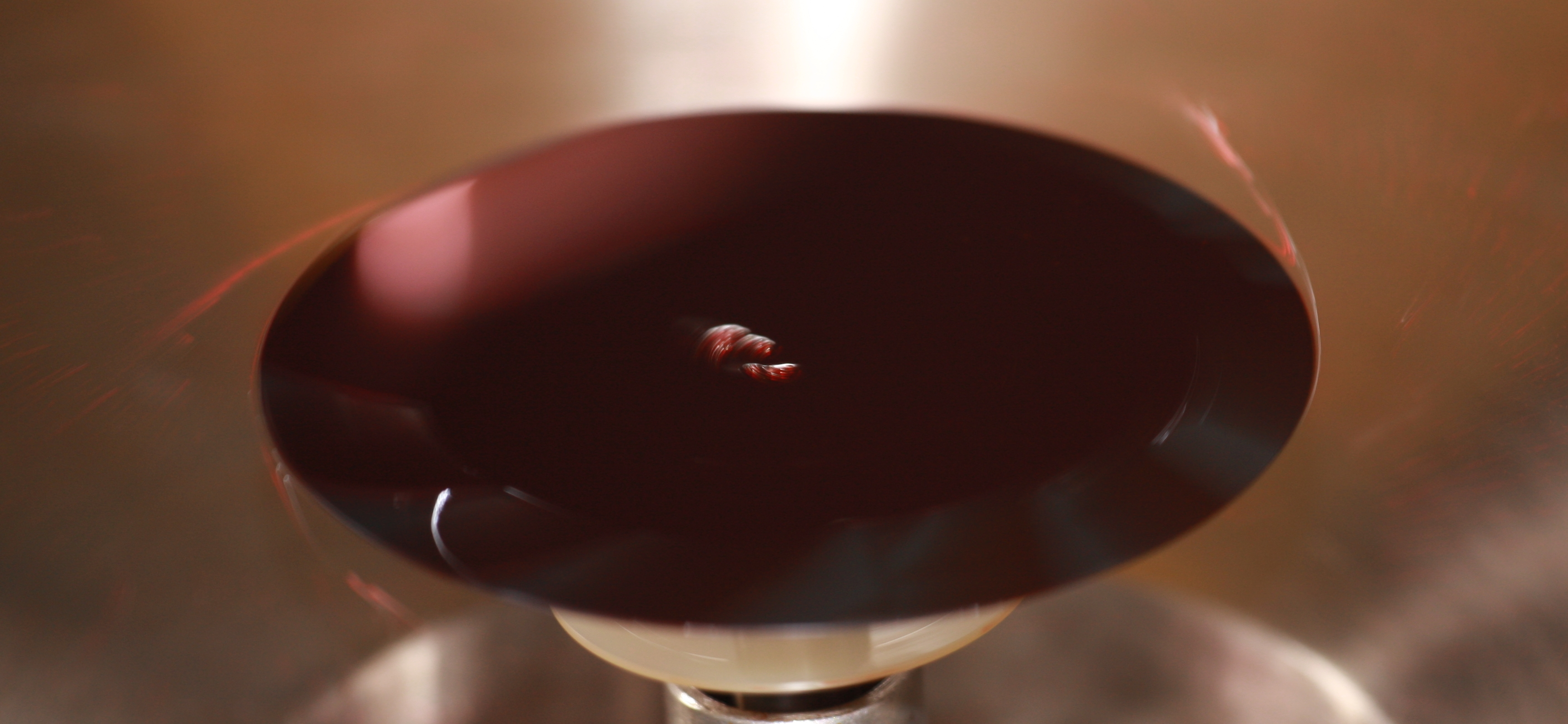 Photoresist during spin coating on silicon wafer